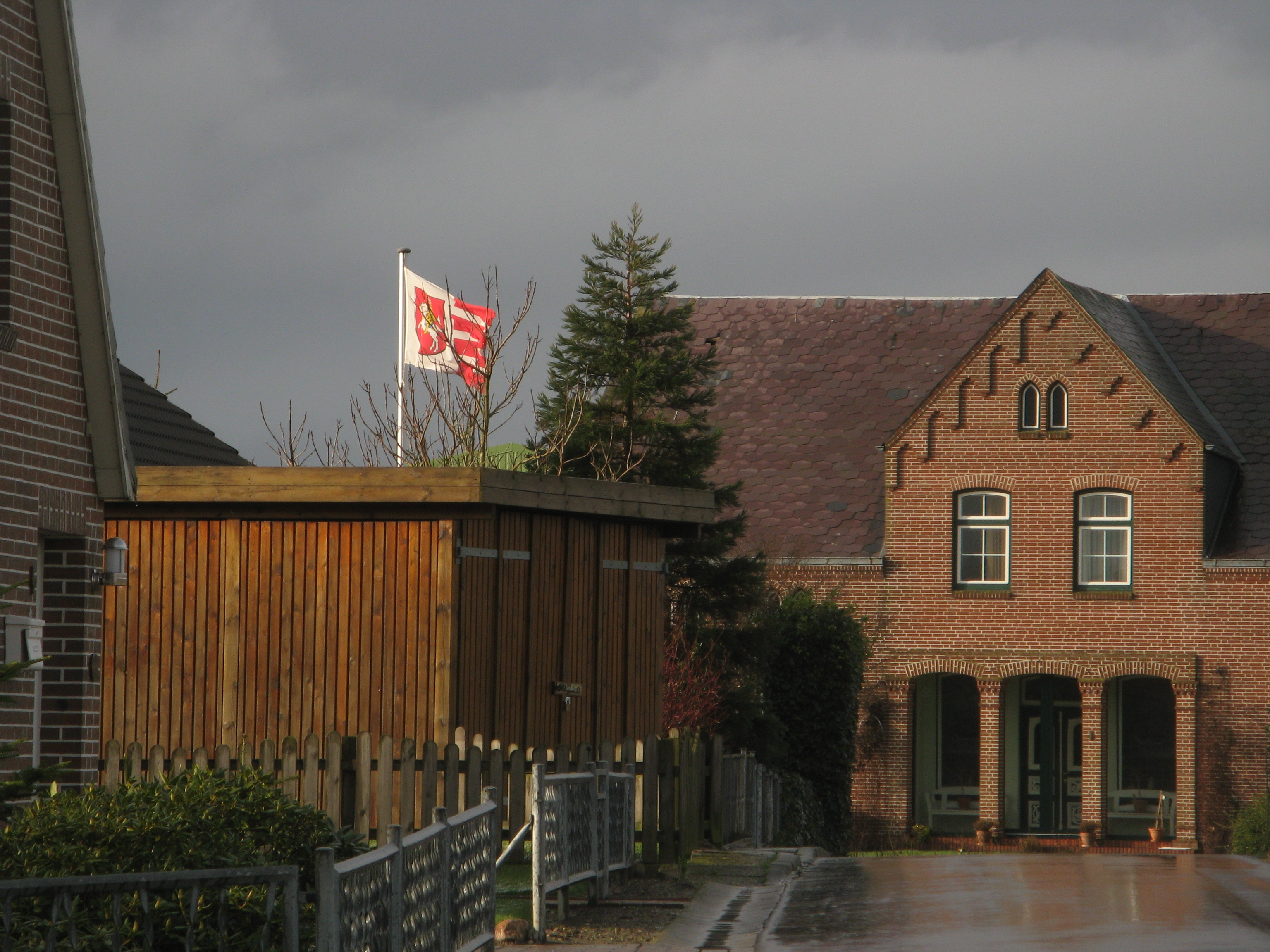 House and dithmarschen flag in Norddeich, Holstein, Germany